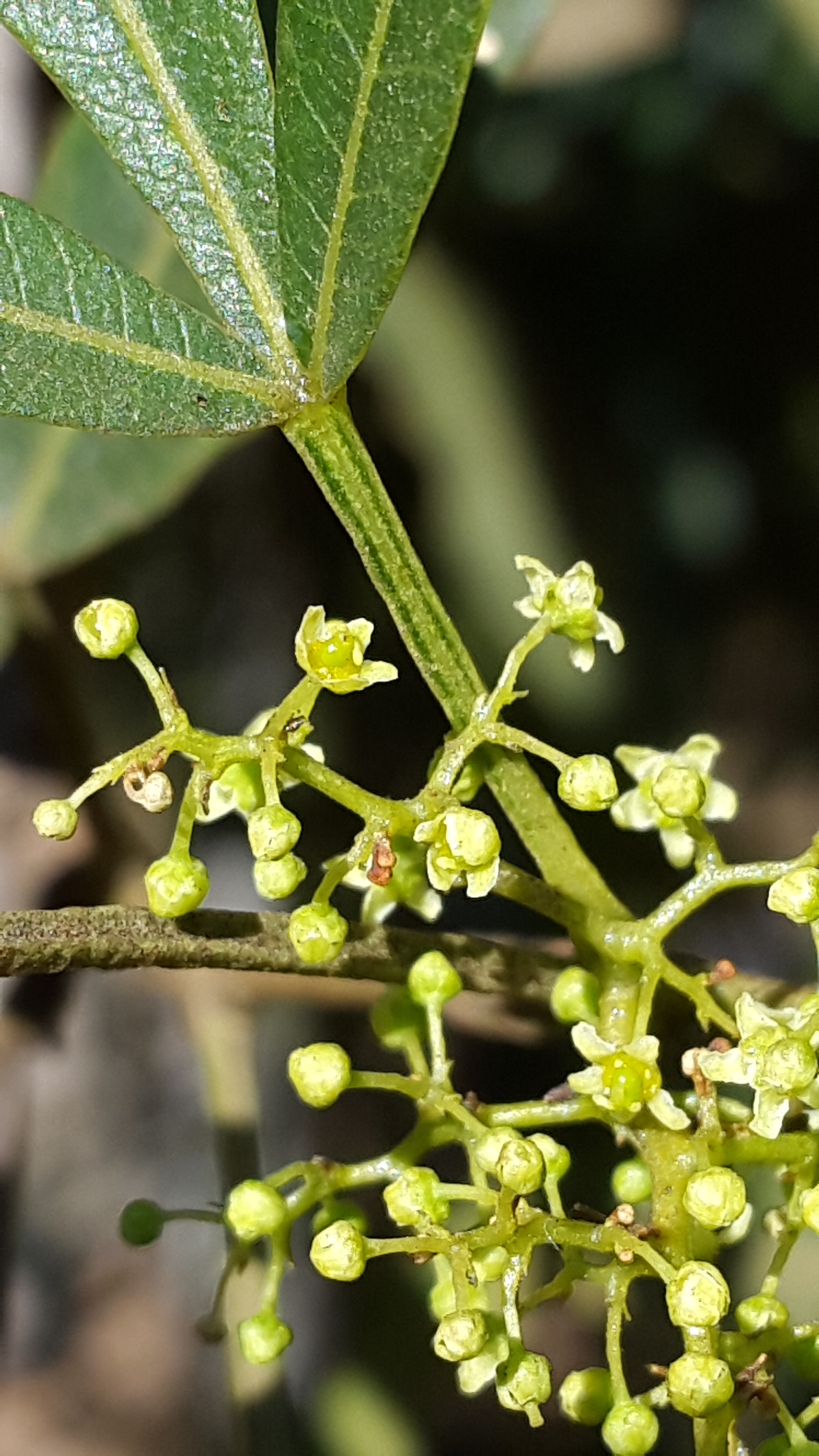 Flowering twig of Searsia lancea (L.f.) F.A.Barkley - cultivated at Honeydew, Gauteng